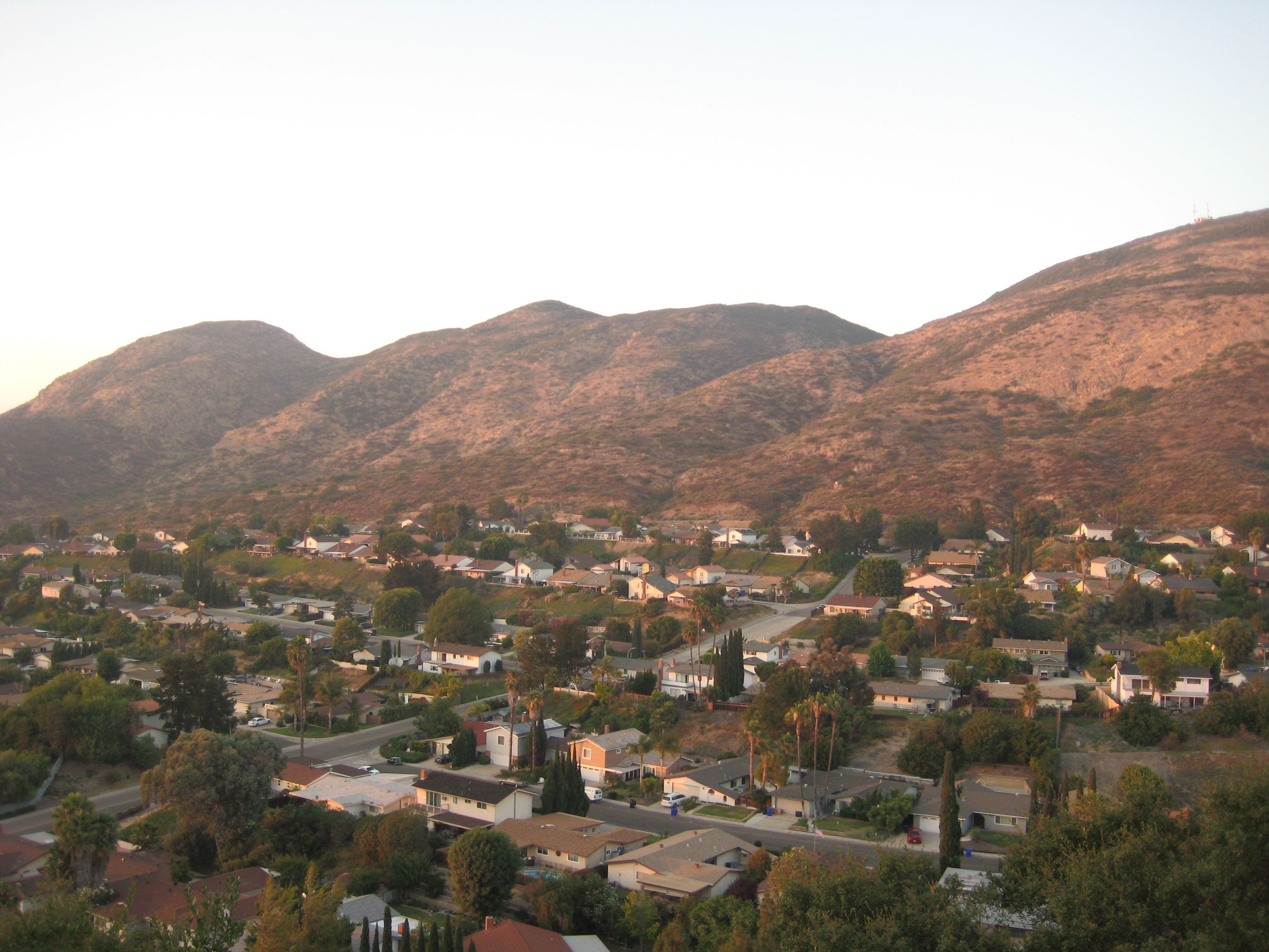 A view of Cowles Mountain and San Carlos, San Diego, California. Photograph by Patty Mooney.